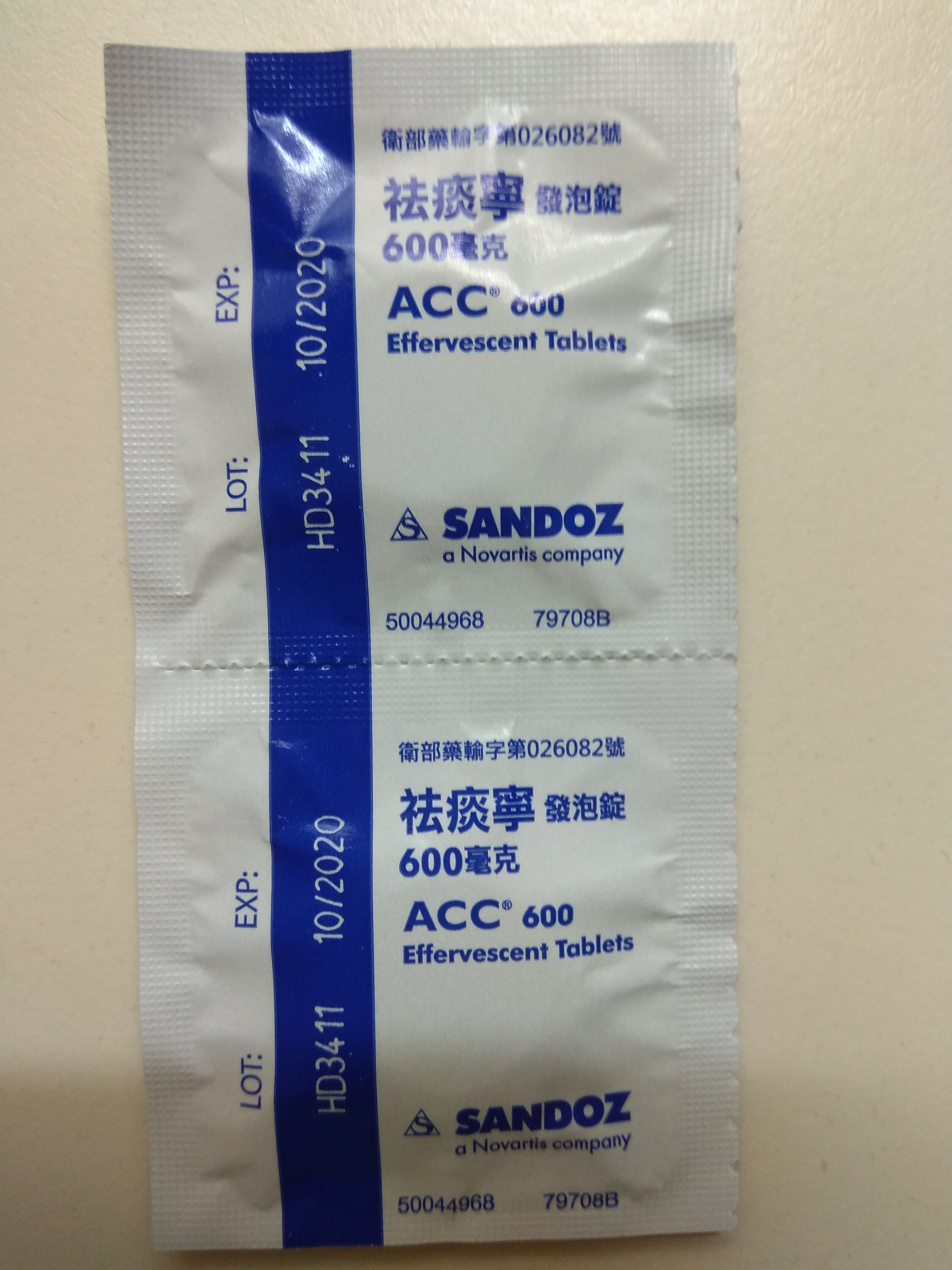 Posterior side